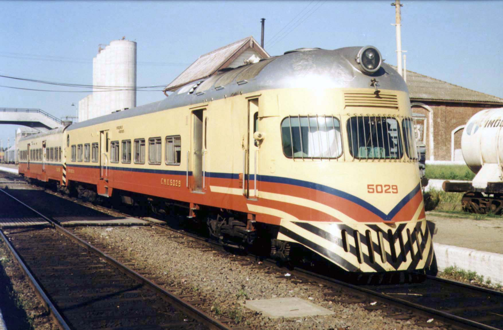 Diesel railcar FIAT 7131 (#5029) at Cañuelas train station of General Roca Railway.CMU 5029 Cañuelas